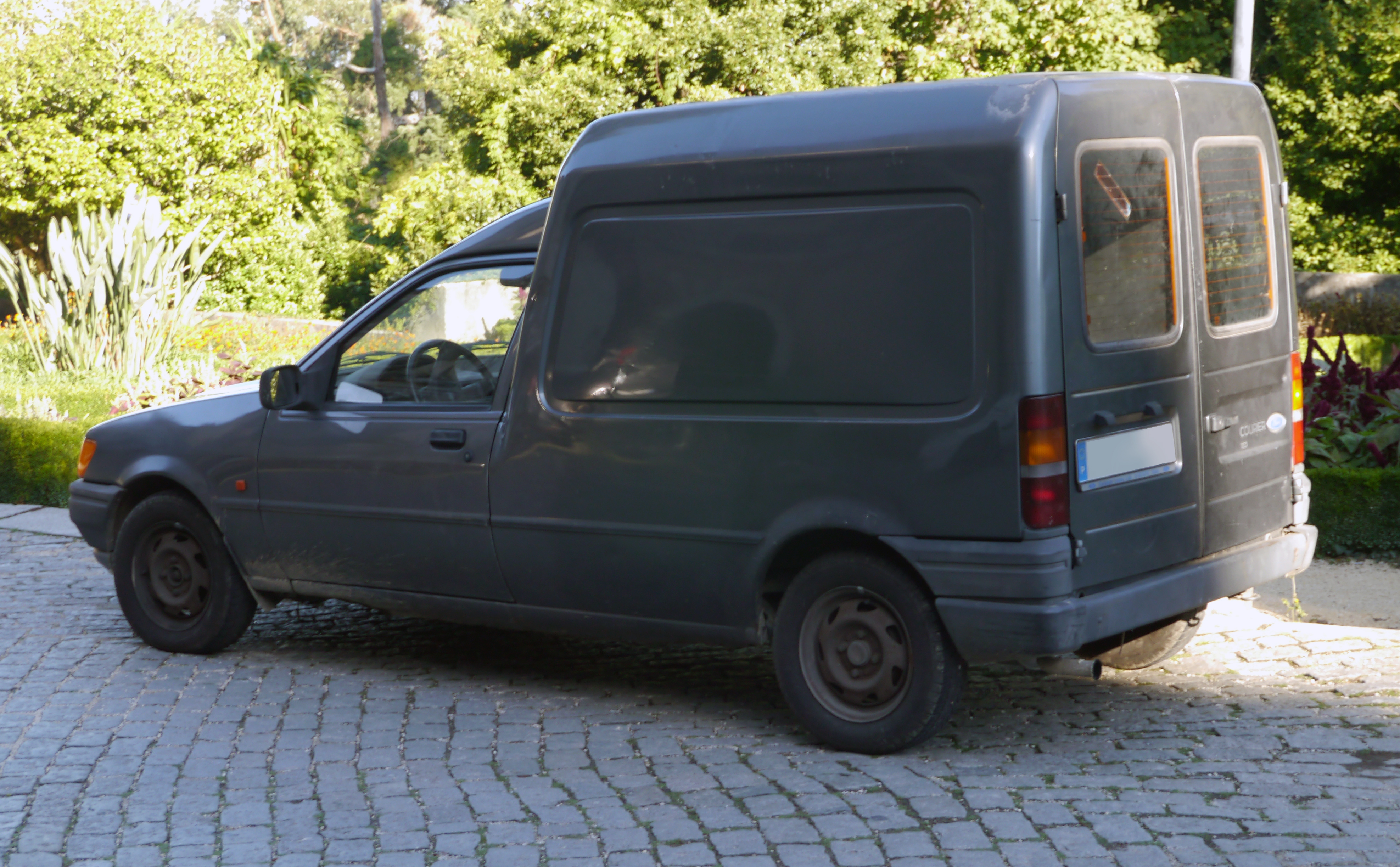 Ford Courier rear left side, Portugal